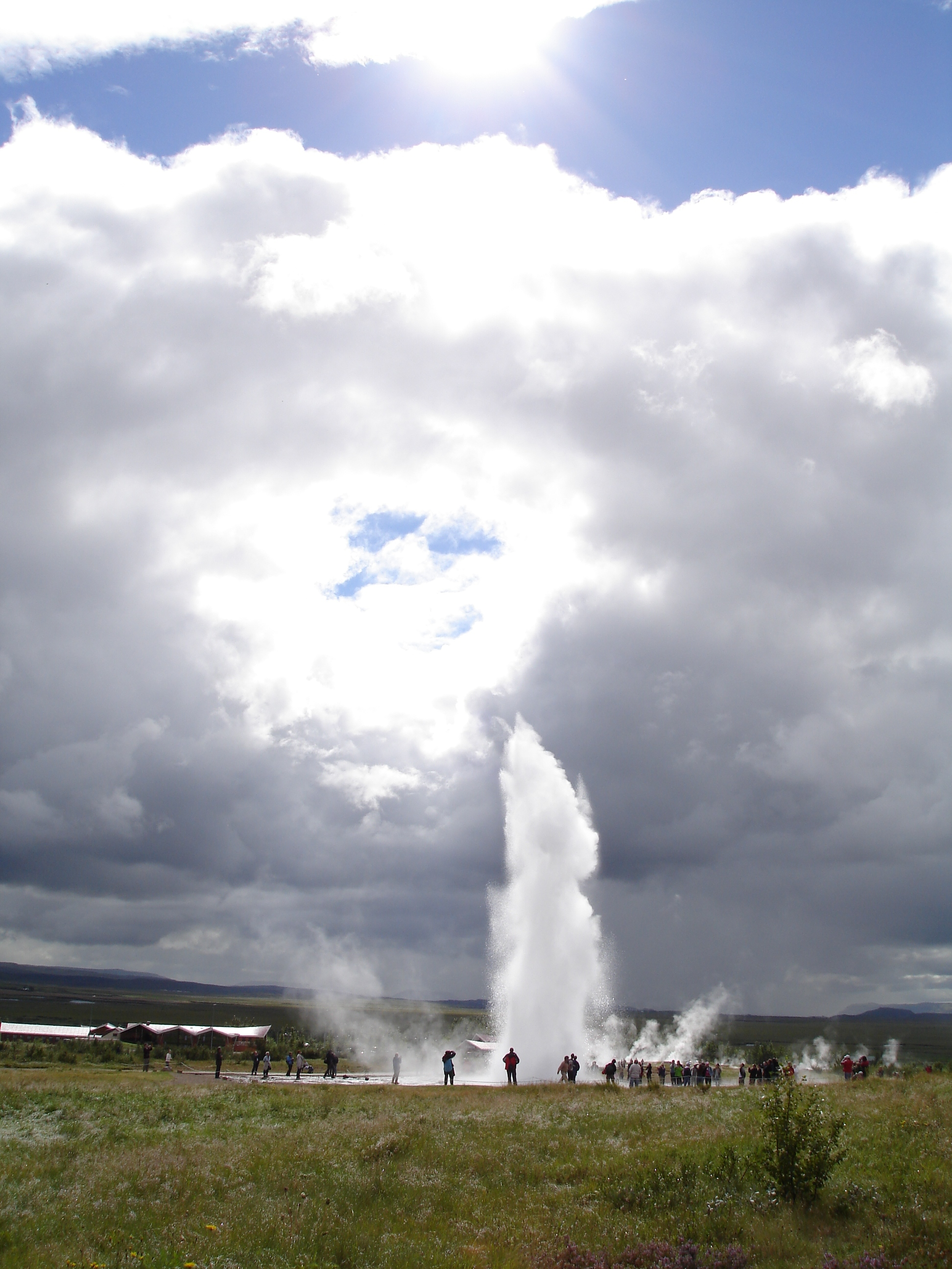 Strokkur Geyser erupting in the sunlight